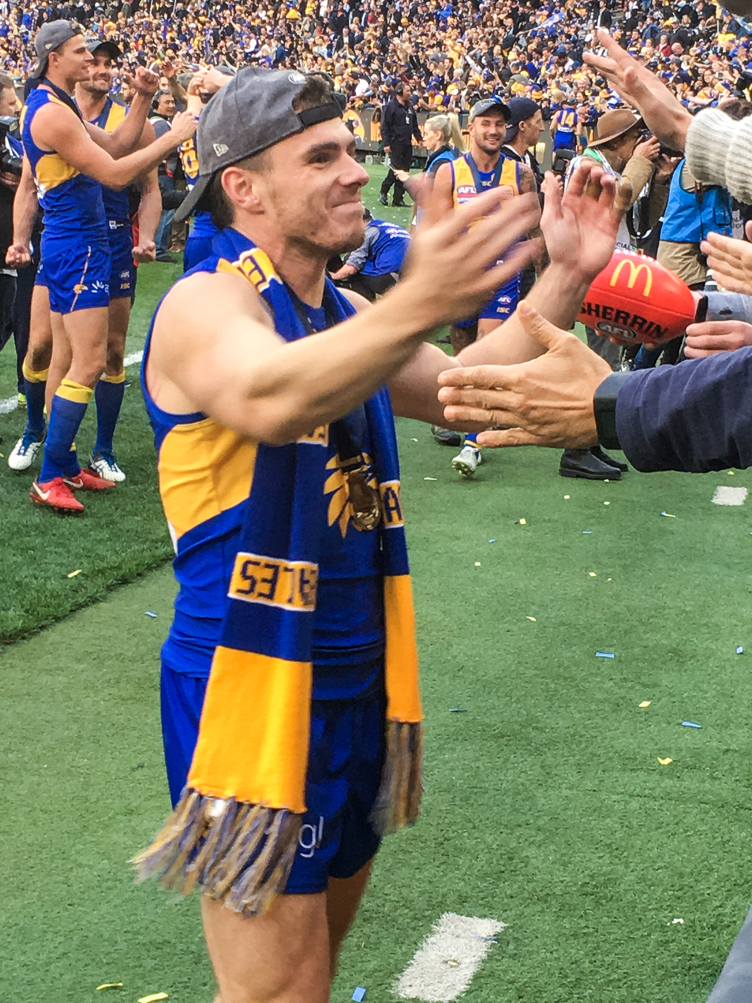 Luke Shuey celebrating with fans after winning the AFL Grand Final on 29 September 2018 in Melbourne, Victoria.